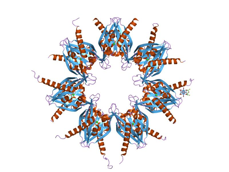 Cartoon representation of the molecular structure of protein registered with 1hkx code.